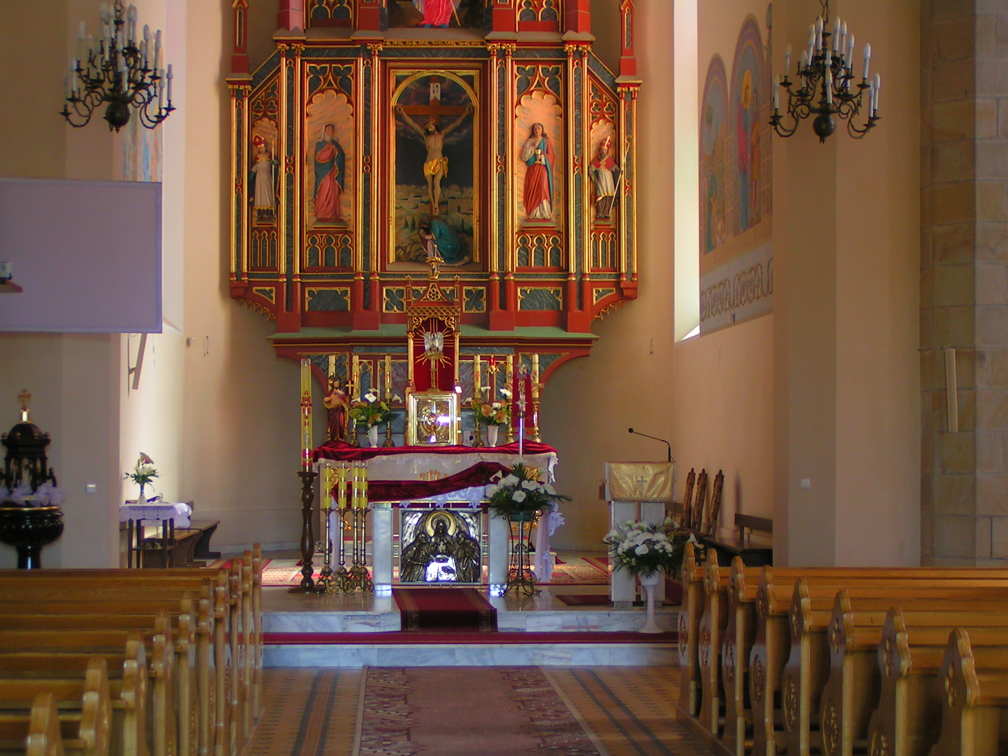 Parish Church of St. Martin the Bishop in Łużna - interior